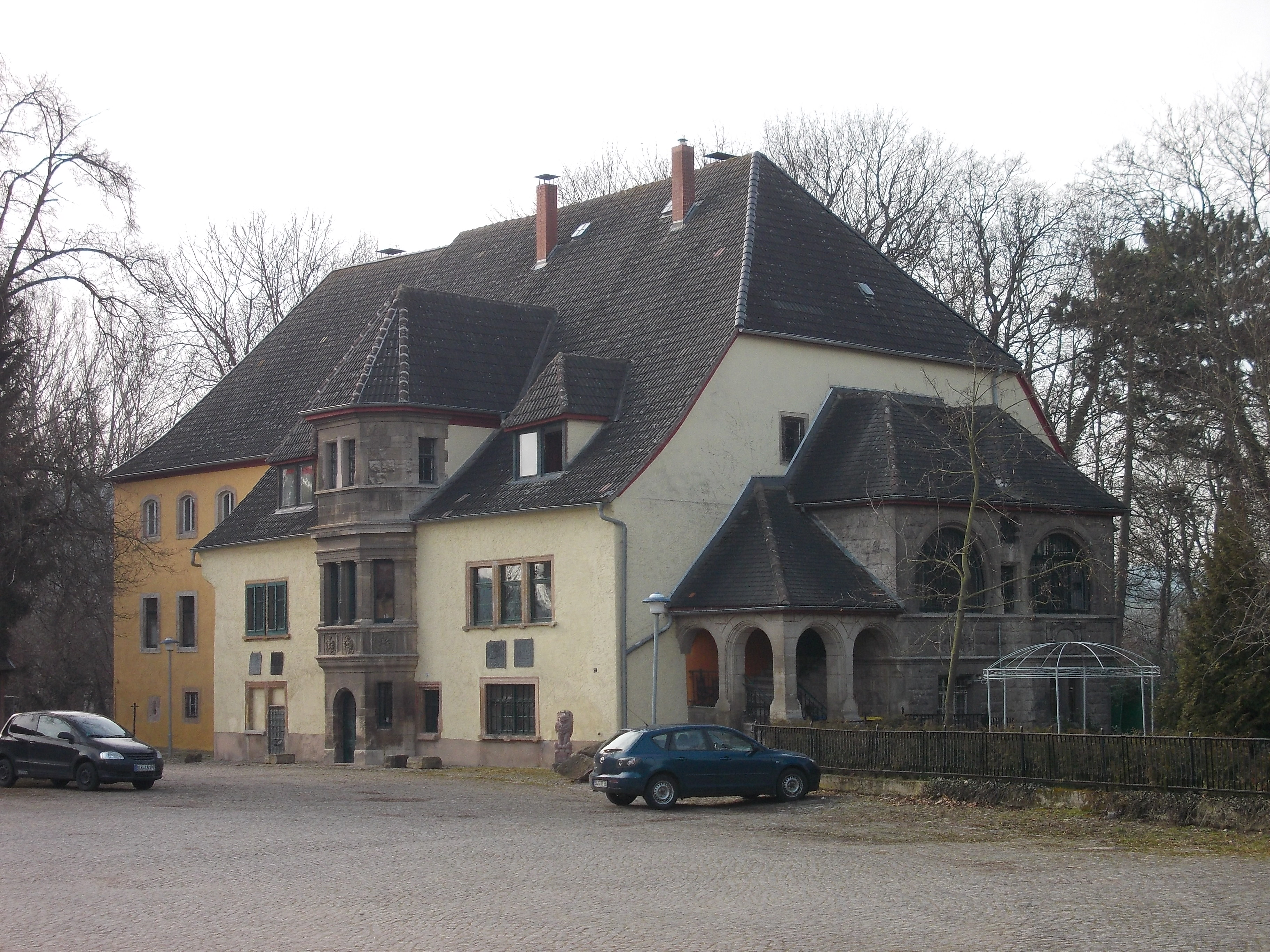 Weischütz manor house (Freyburg/Unstrut, district: Burgenlandkreis, Saxony-Anhalt)